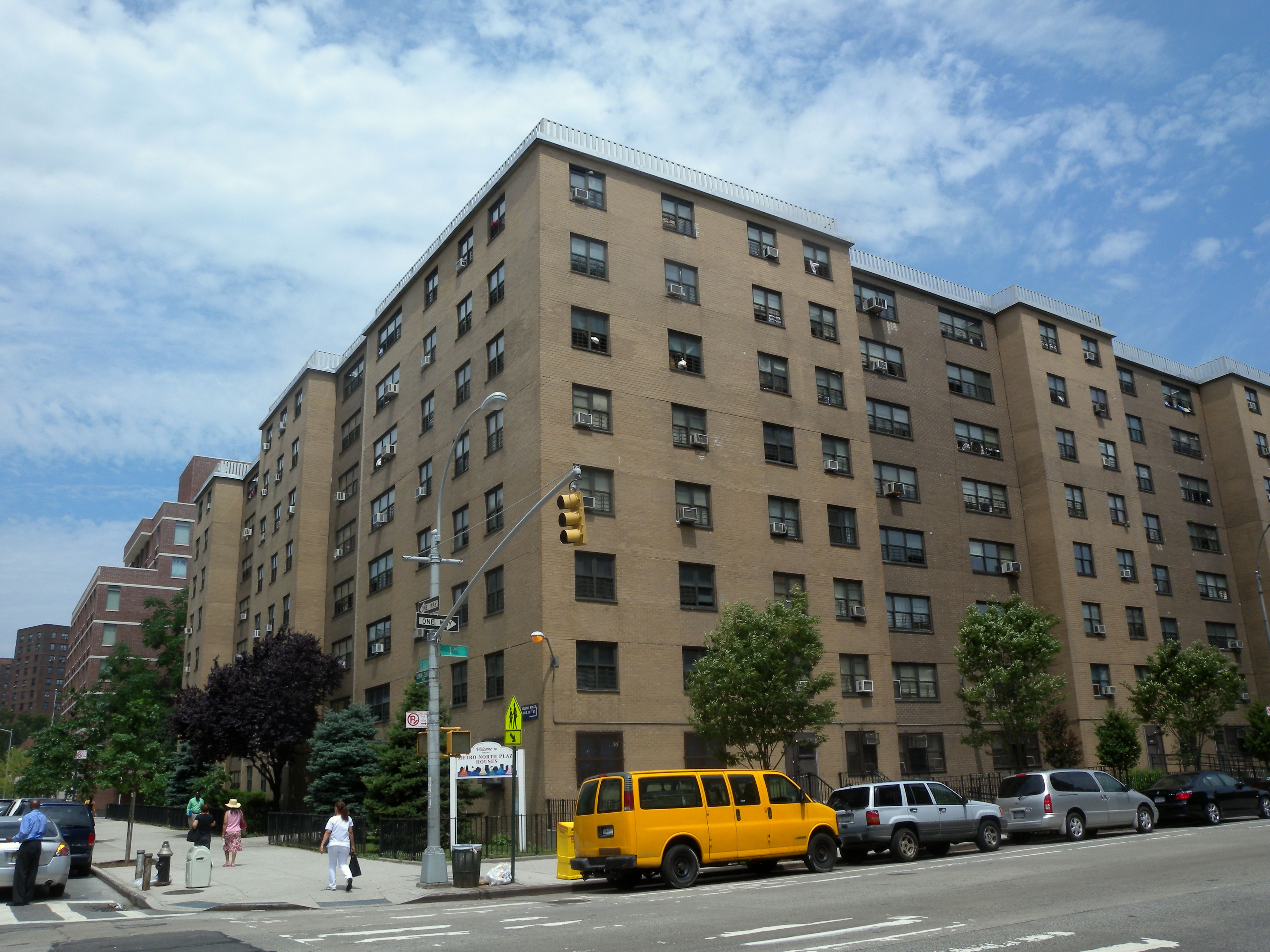 Looking northwest across 101st St and 1st Ave at Metro North Plaza Houses on a mostly cloudy midday.